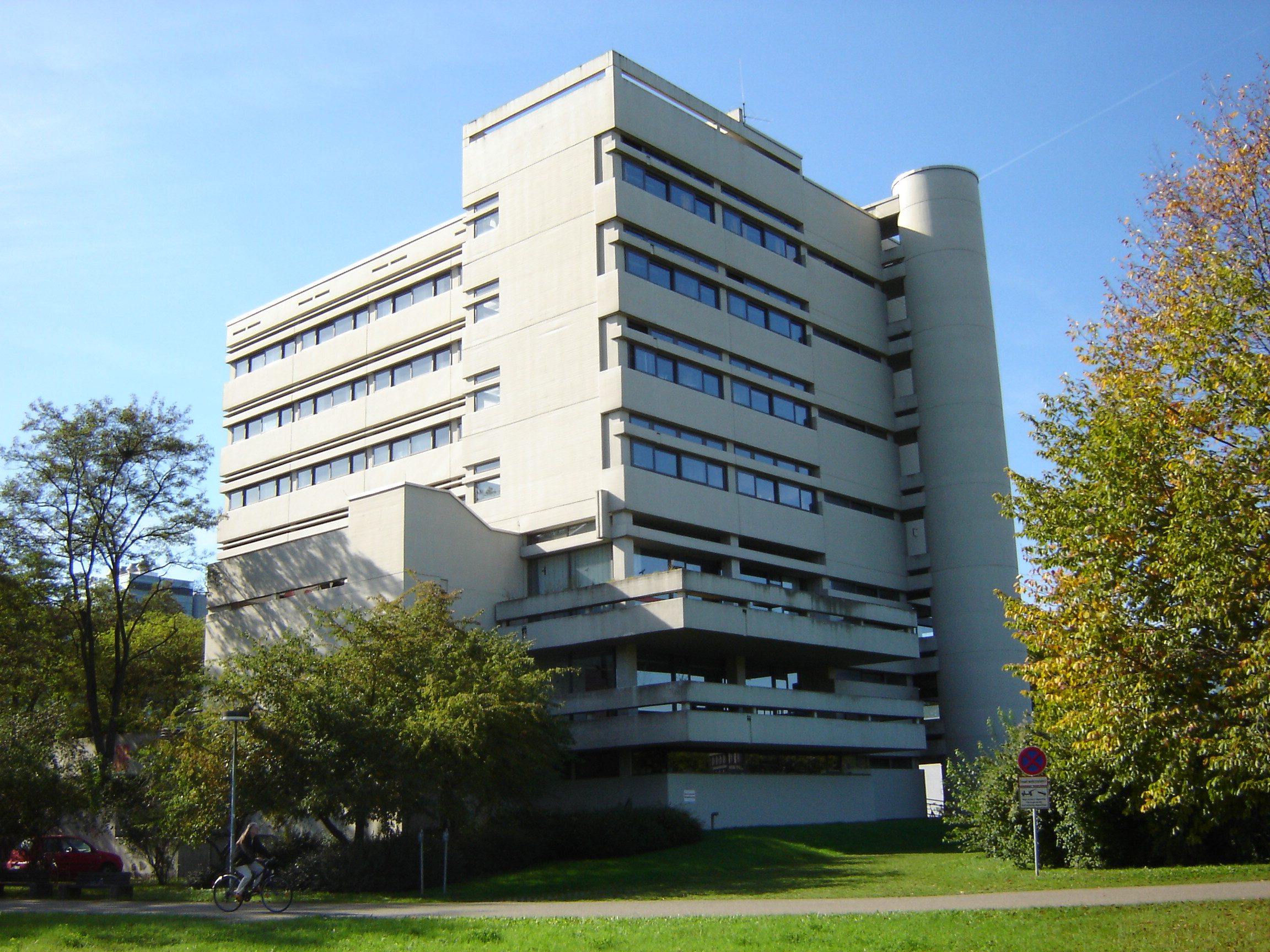 South Asia Institute of the University of Heidelberg